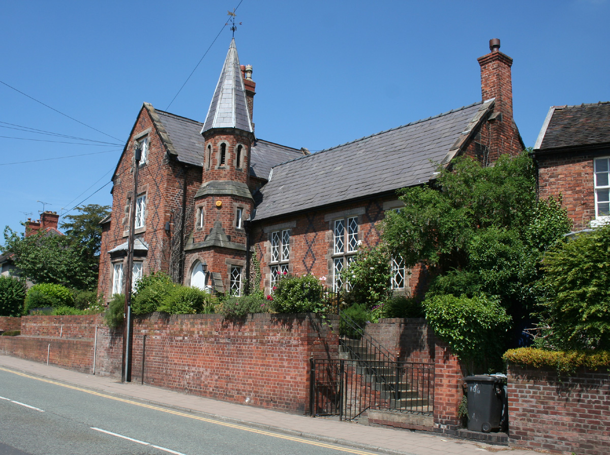 Former Grammar School & Headmaster's House, 108 Welsh Row, Nantwich, Cheshire